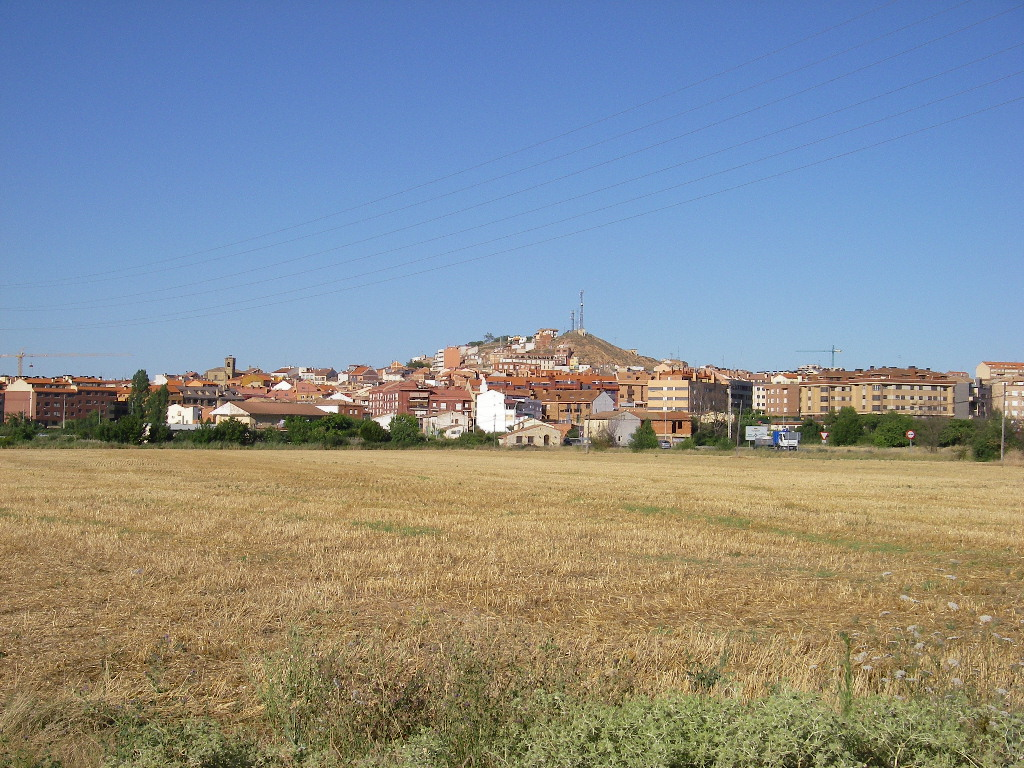 View of Villamediana de Iregua (La Rioja, Spain)